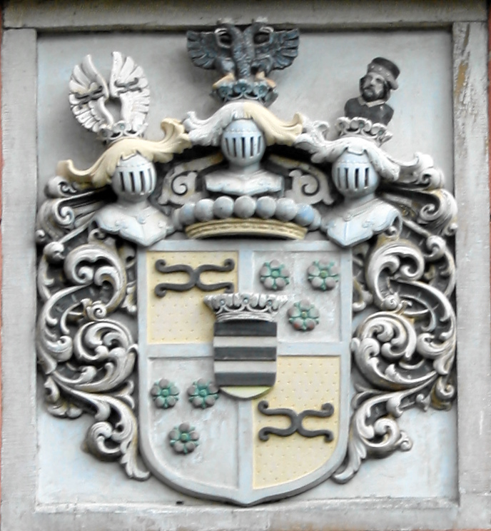 Düsseldorf, Germany; Kalkum castle, coat of arms of the Hatzfeldt-Wildenberg family at the west gate.